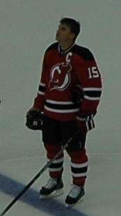 Jamie Langenbrunner before a homegame against Washington